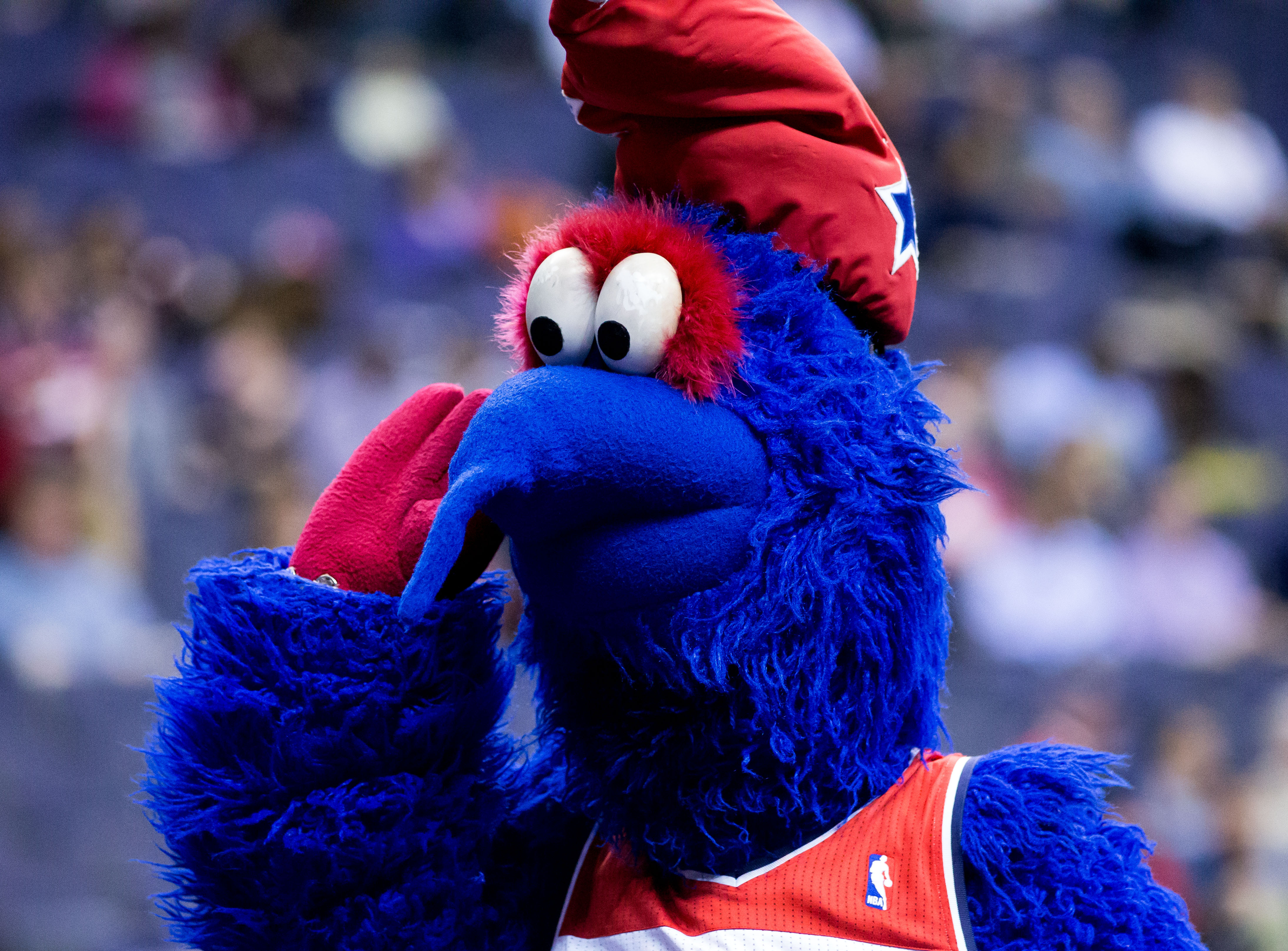 Detroit Pistons at Washington Wizards Feb 27, 2013